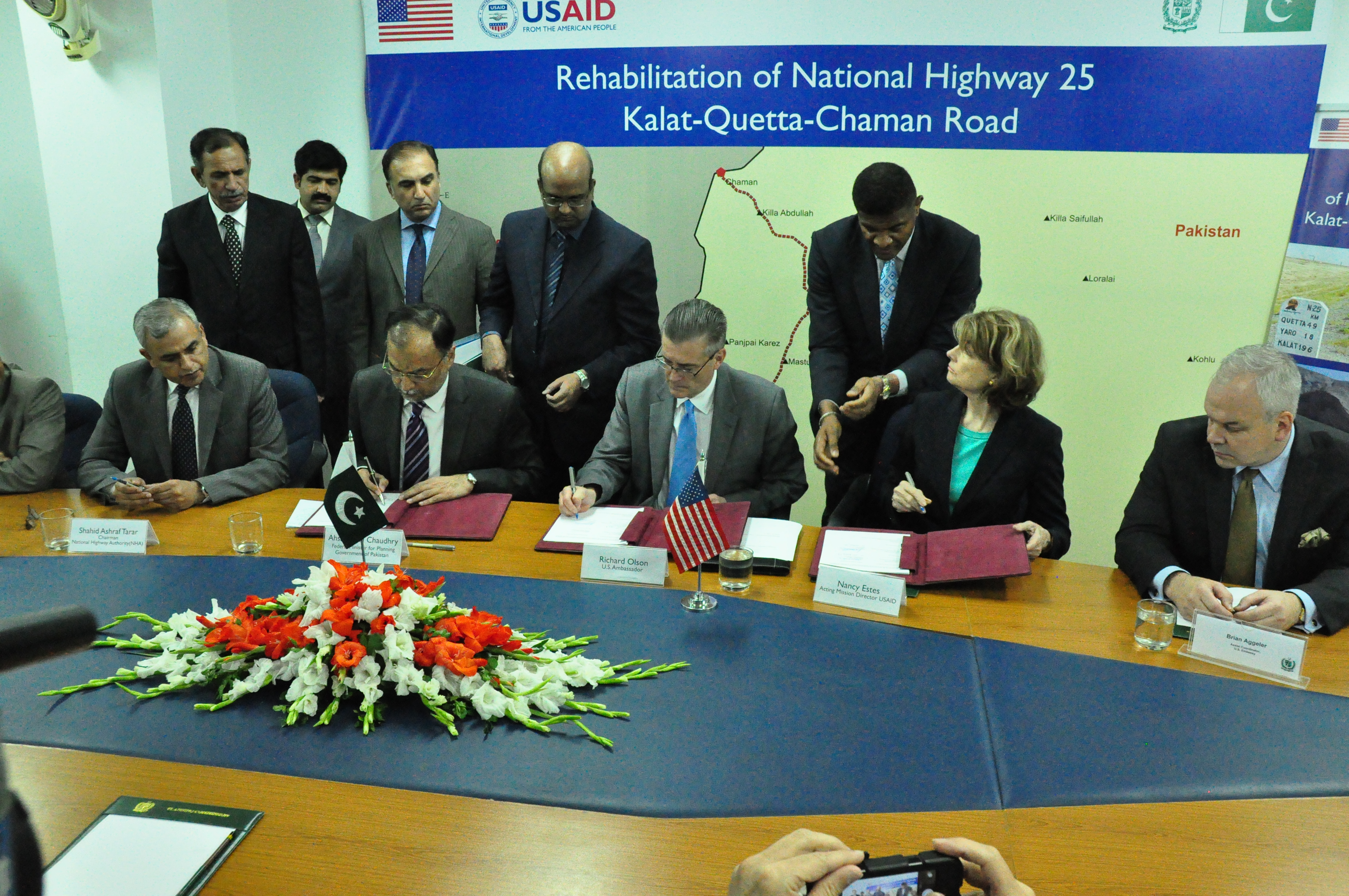 Project Implementation Letter for the Rehabilitation of National Highway 25 (Kalat-Quetta-Chaman Road)